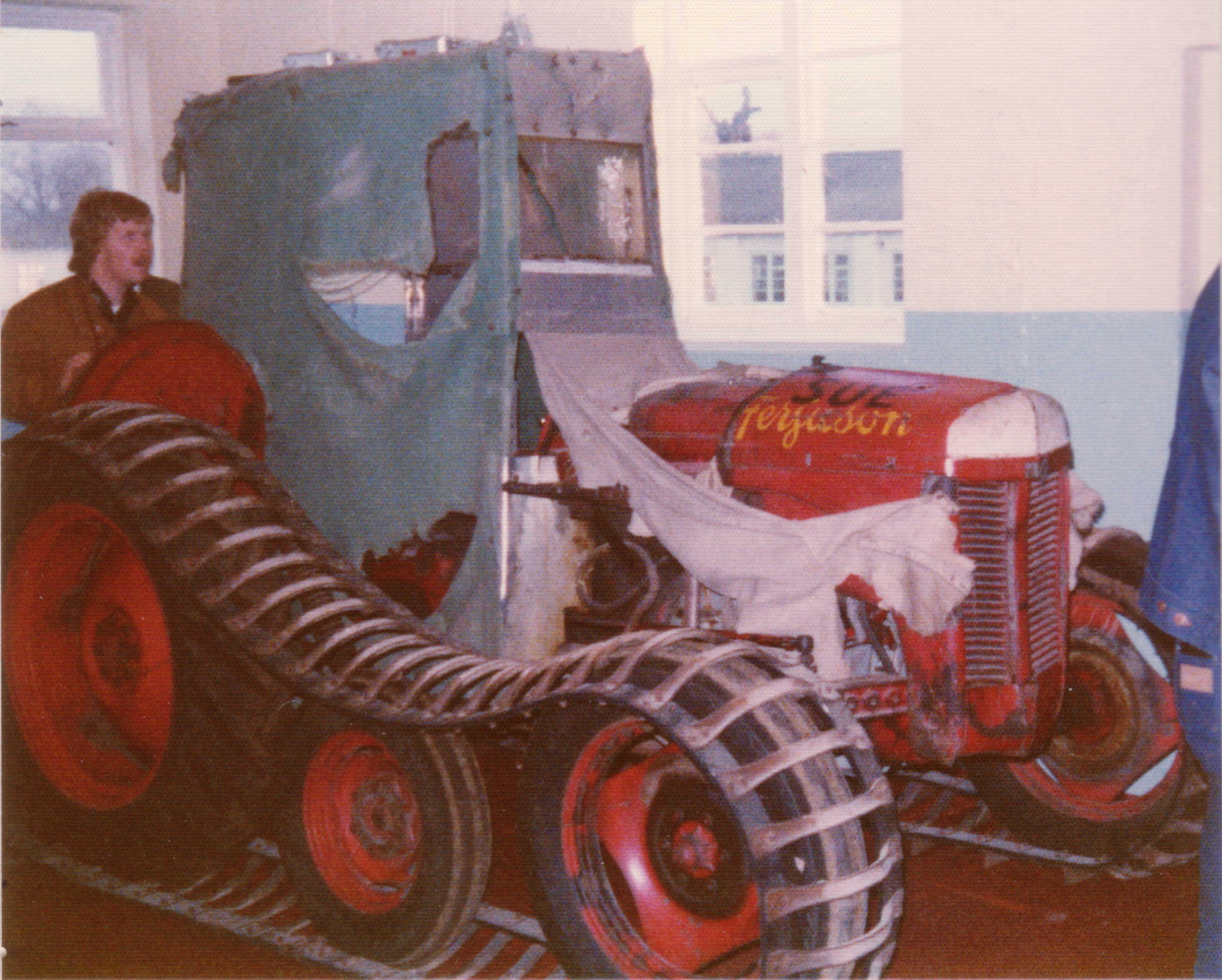 The Ferguson TEA that Edmund Hillary brought to the South Pole in 1958. The picture was taken at the Massey Ferguson museum in Coventry.